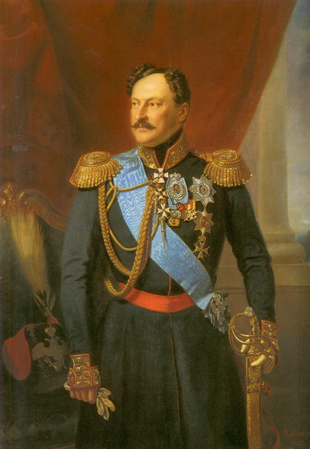 Portrait of Chernyshov Alexander Ivanovich (1786-1857), Russian generallabel QS:Lru,"Александр Иванович Чернышёв (1786-1857)" label QS:Len,"Portrait of Chernyshov Alexander Ivanovich (1786-1857), Russian general"